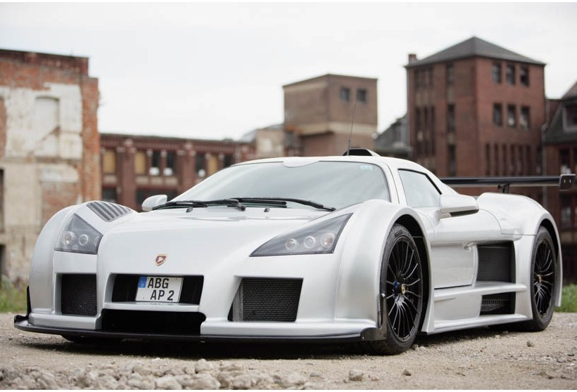 Gumpert Apollo Sport